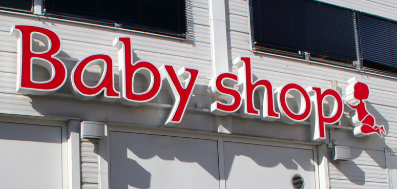 Picture of a store front of a baby shop store